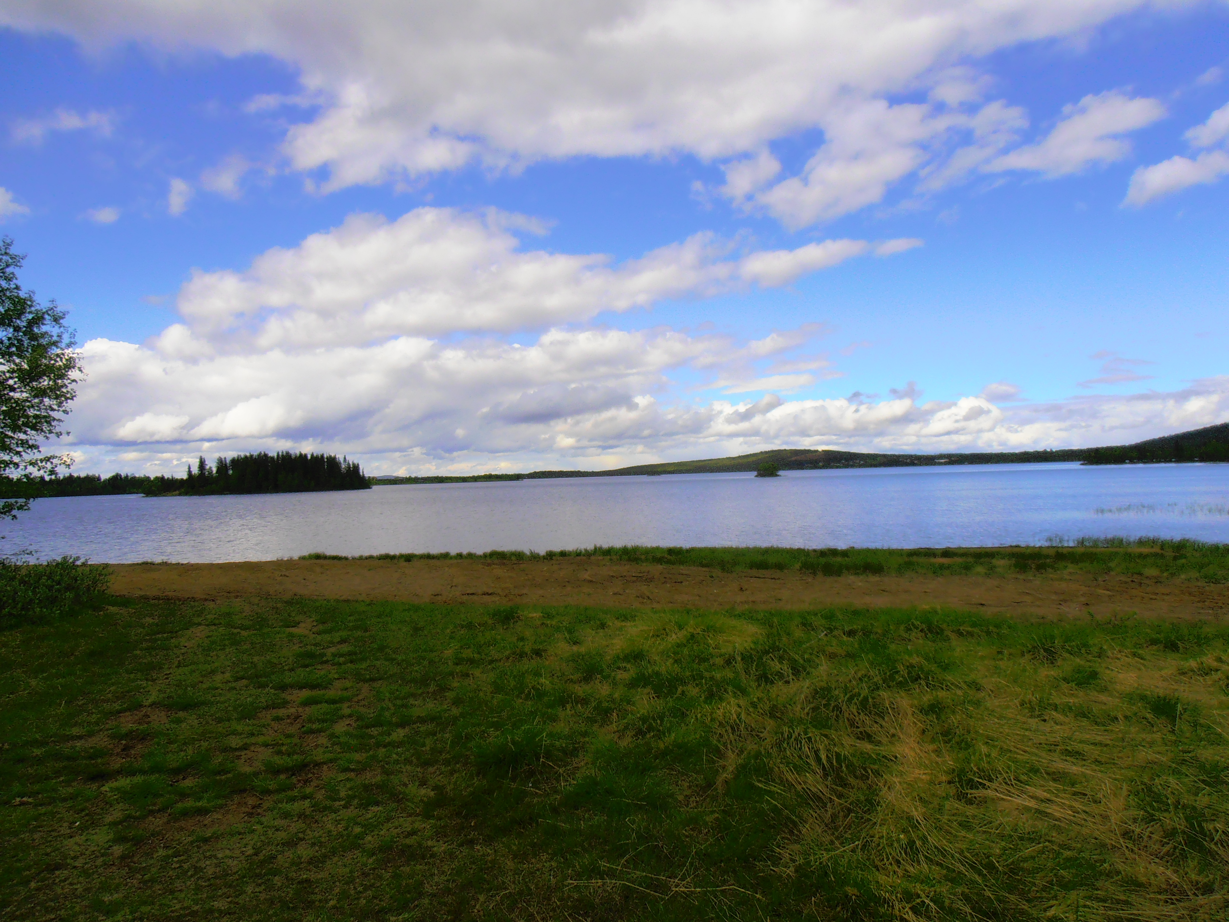 Soutujärvi lake, Soutujärvi, Skaulo